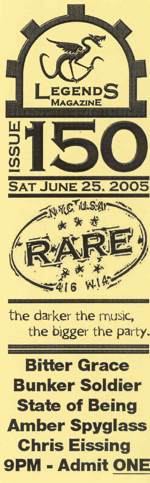 Ticket stub for Legends Magazine's 150th issue party in New York City on June 25, 2005.